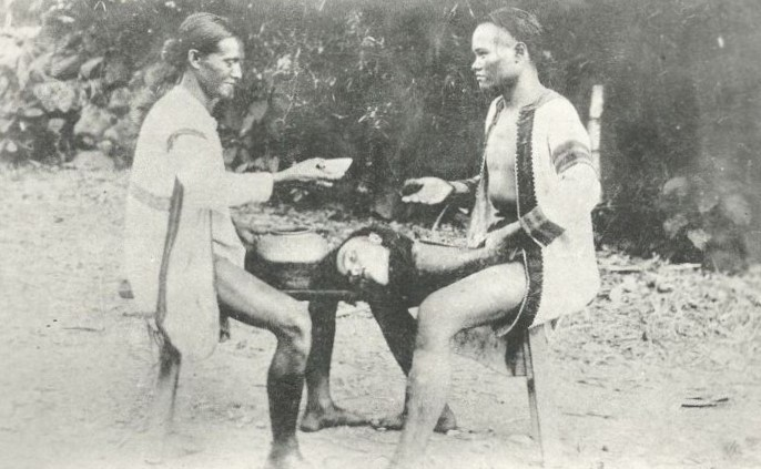 The headhunting ritual of aborigines in Taiwan.